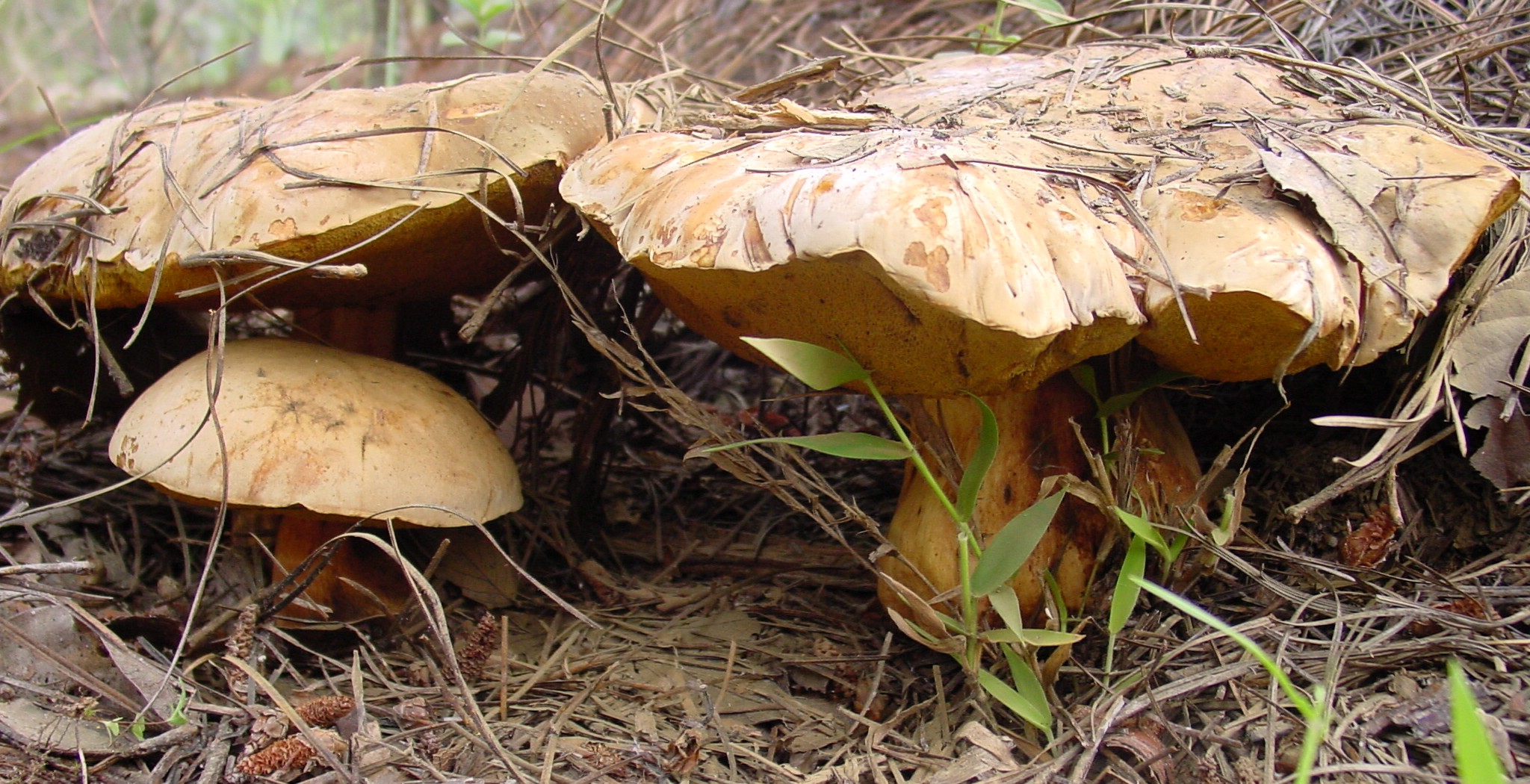 Bolete Family (Boletaceae), species found growing near Nanchitla in the state of Mexico, Mexico, at 2700 m. altitude. Picture taken by: Noah Elhardt Boletus queletii???